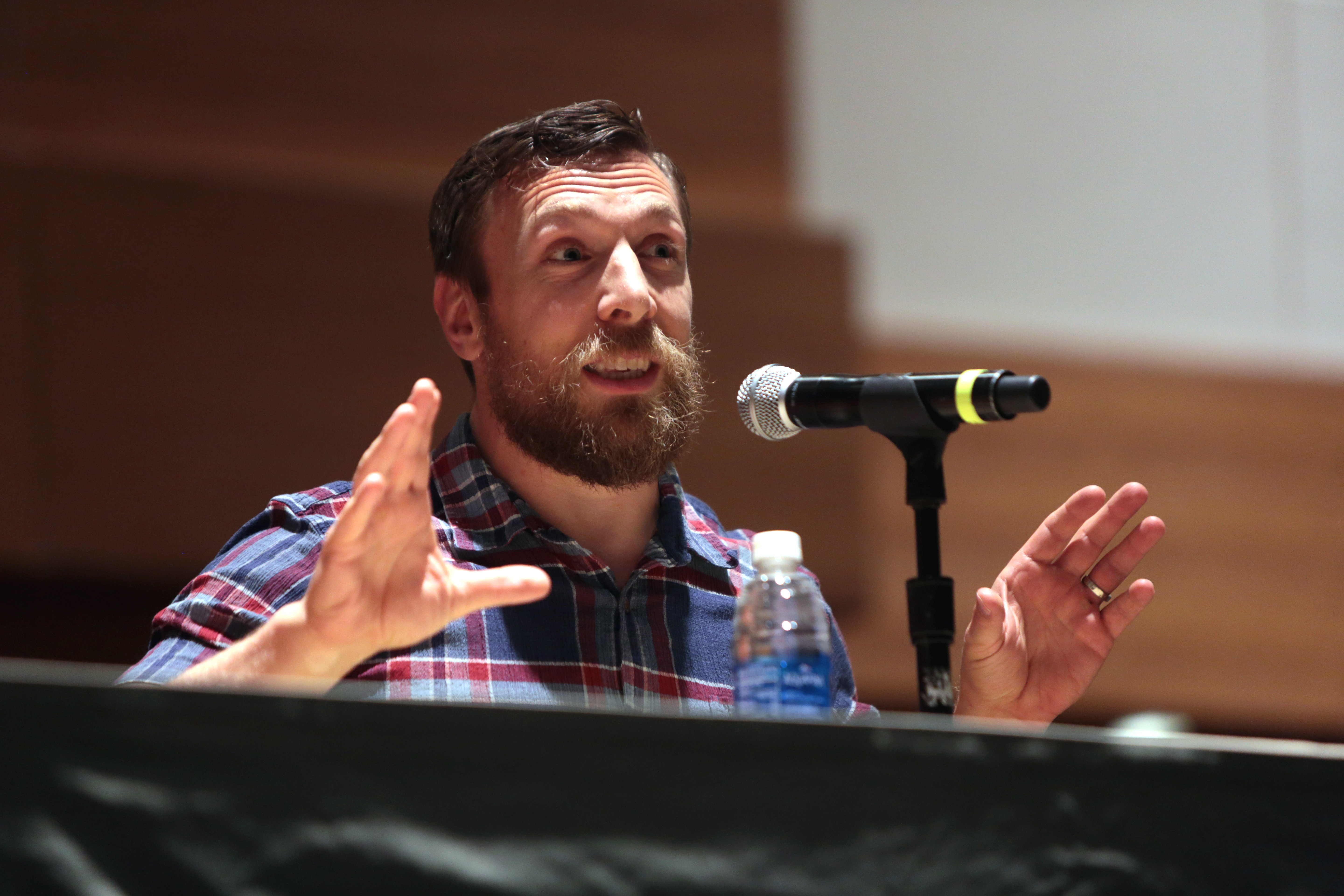 The Professional Wrestler Daniel Bryan at Phoenix ComicCon in 2016